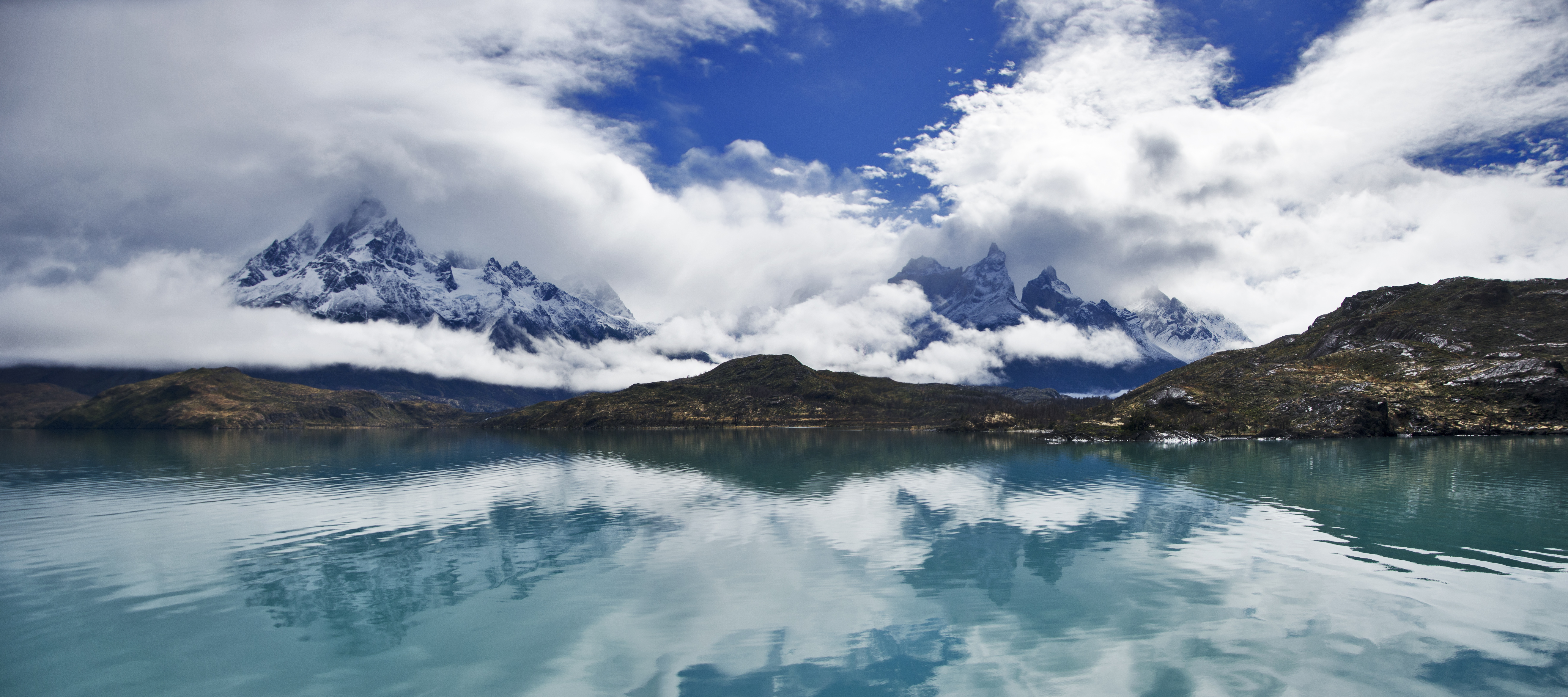 View from Lake Peohé upon arrival at Parque Torres del Paine